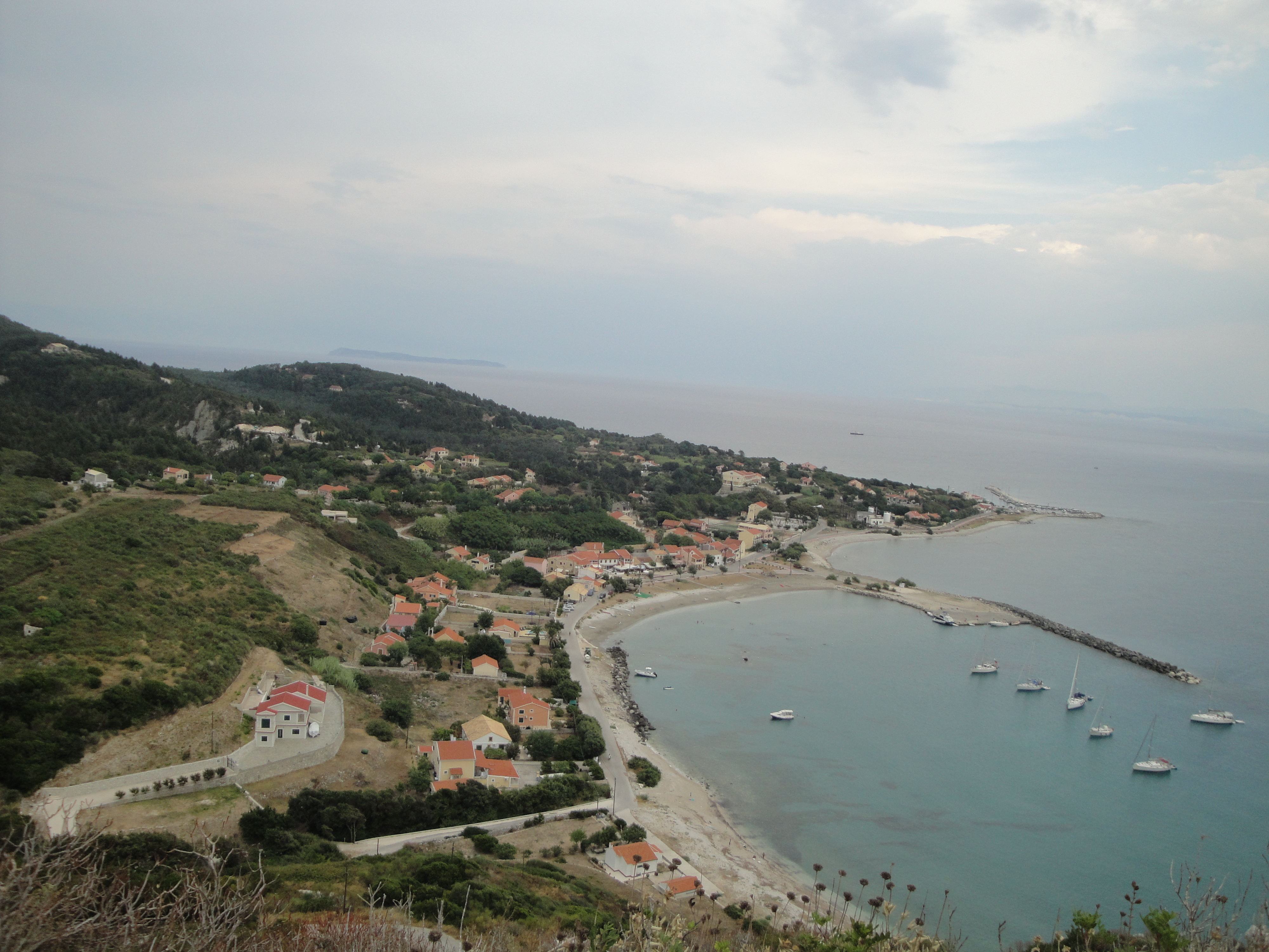 Ammos district (the bigest district of Othoni island, Greece)